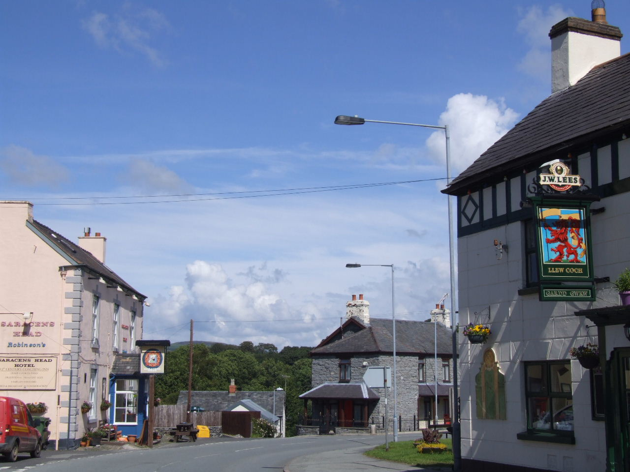 Centre of Llansannan village, Conwy County, Wales.